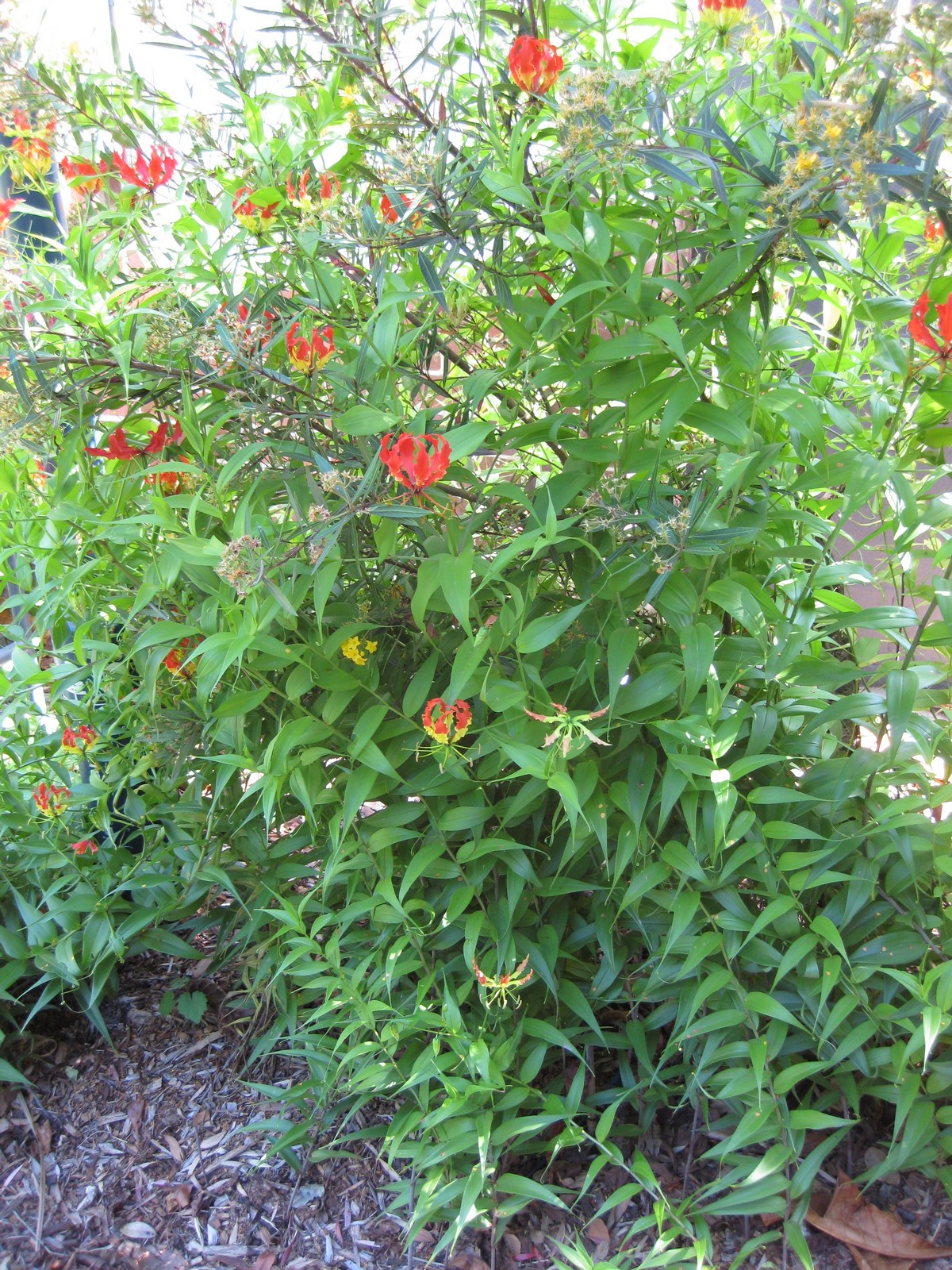 Photographed at the Royal Botanic Gardens Sydney (Australia) in December